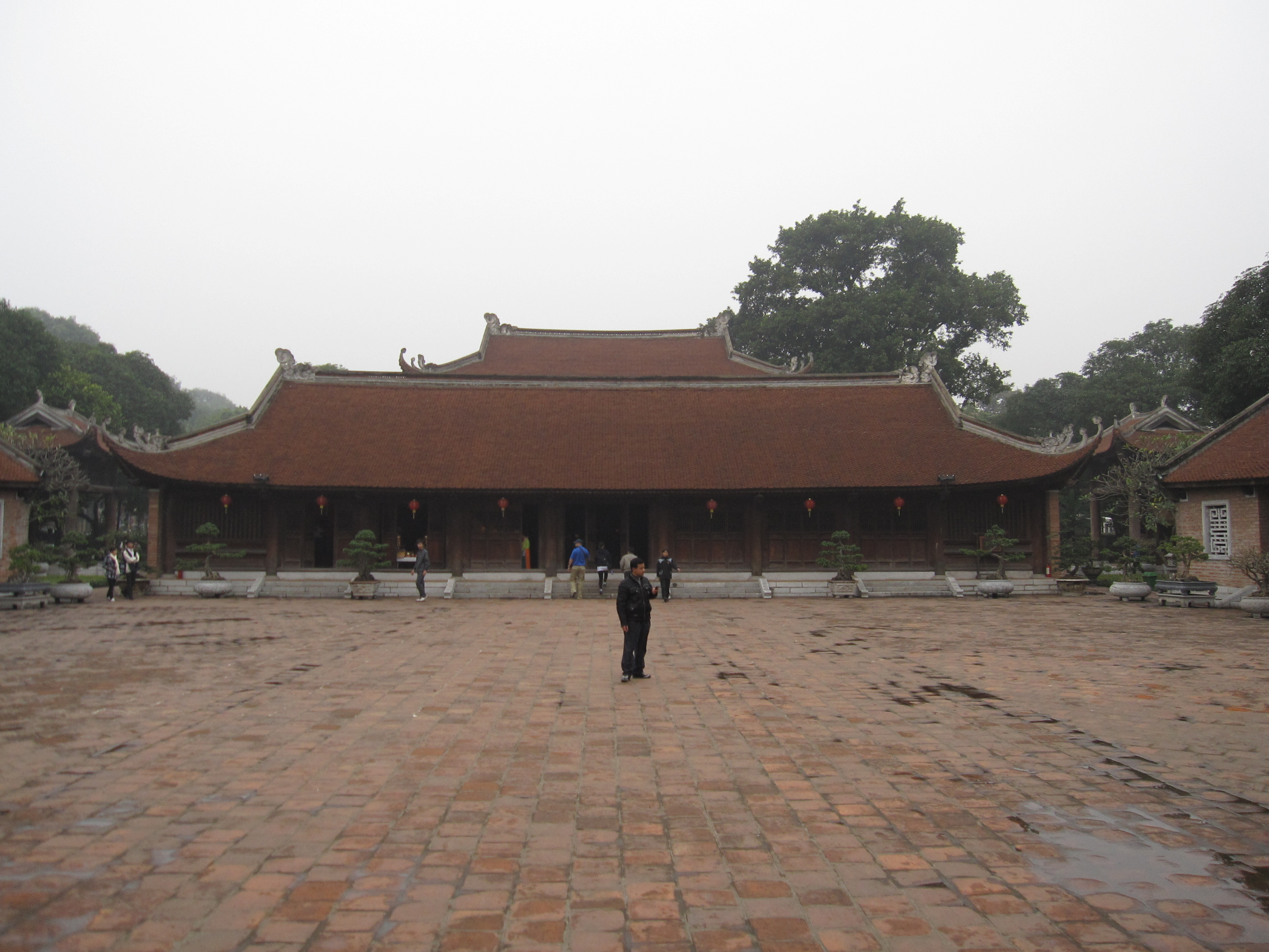 Last courtyard, the former imperial academy, at the Temple of Literature in Hanoi, Vietnam.